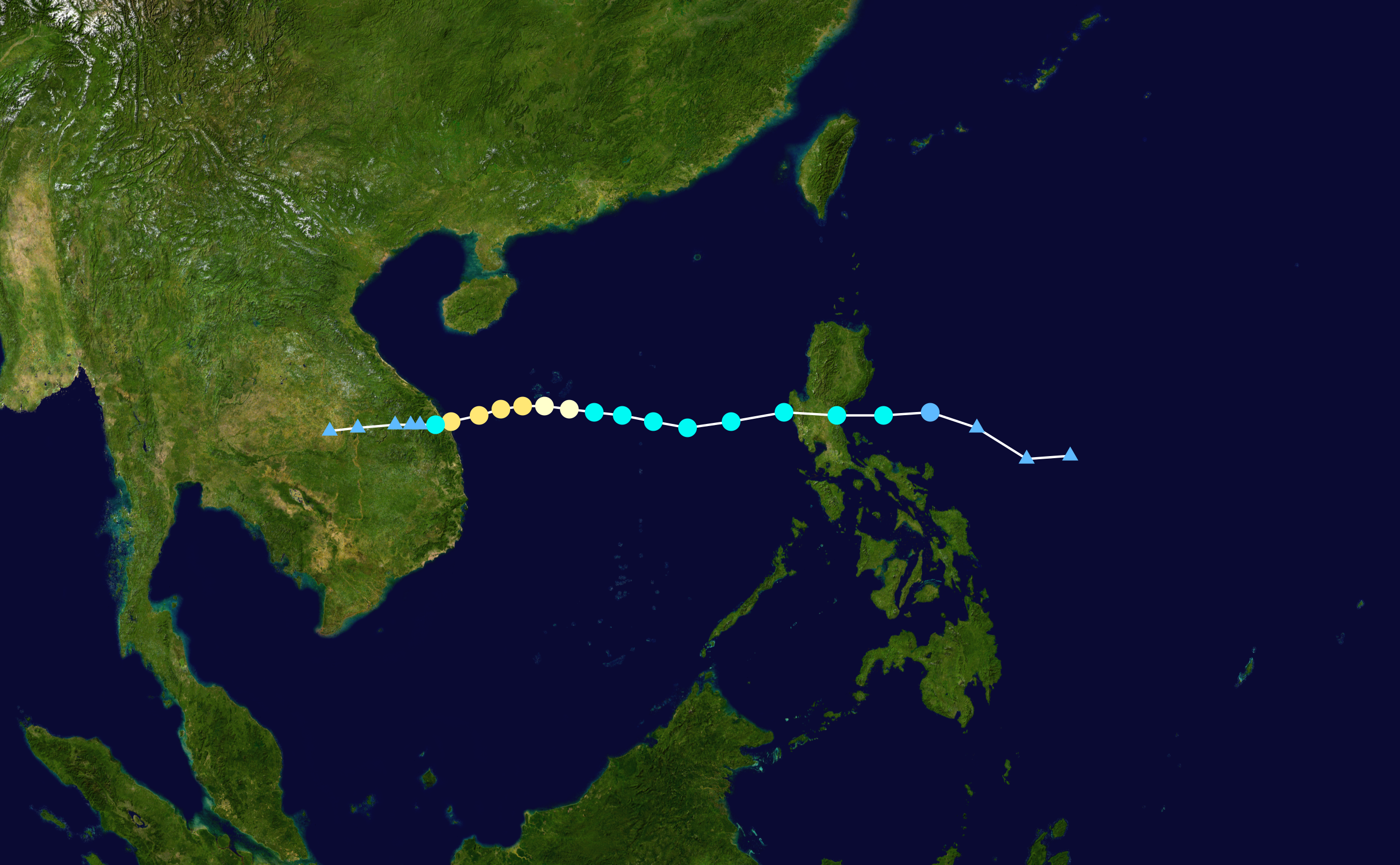 Track map of Typhoon Ketsana of the 2009 Pacific typhoon season. The points show the location of the storm at 6-hour intervals. The colour represents the storm's maximum sustained wind speeds as classified in the Saffir–Simpson scale (see below), and the shape of the data points represent the nature of the storm, according to the legend below. Saffir–Simpson scale Tropical depression≤38 mph≤62 km/h Category 3111–129 mph178–208 km/h Tropical storm39–73 mph63–118 km/h Category 4130–156 mph209–251 km/h Category 174–95 mph119–153 km/h Category 5≥157 mph≥252 km/h Category 296–110 mph154–177 km/h Unknown Storm type Tropical cyclone Subtropical cyclone Extratropical cyclone / Remnant low / Tropical disturbance / Monsoon depression